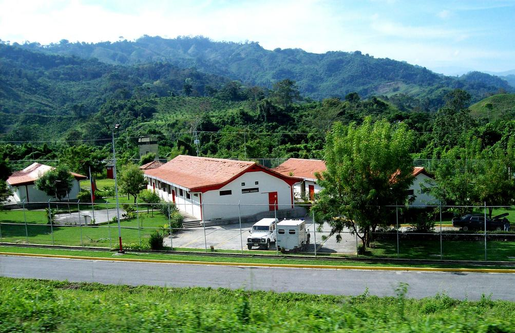 Valera, Trujillo, Venezuela